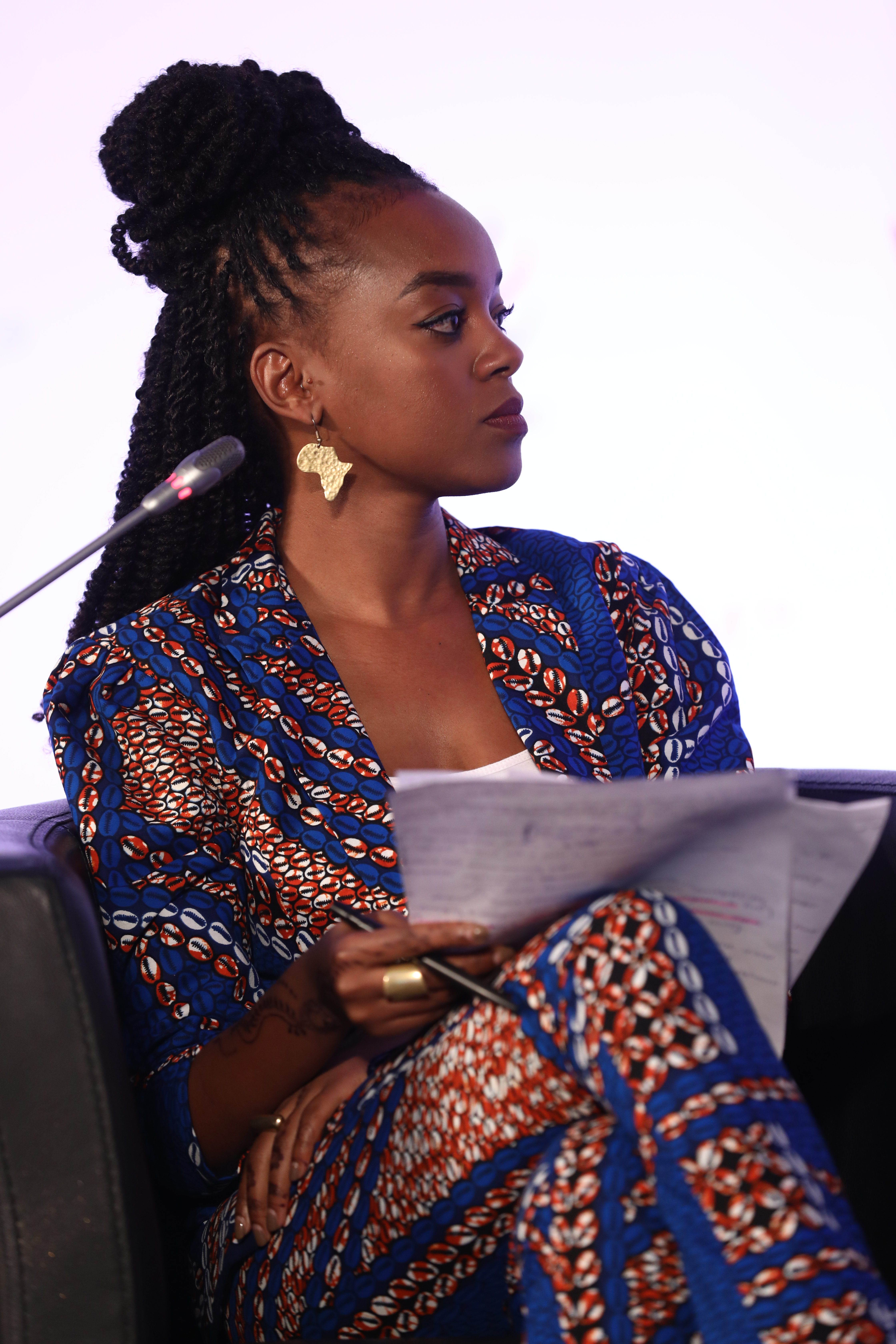 Photos from the WTO Public Forum 2019 photo gallery may be reproduced provided attribution is given to the WTO and the WTO is informed. Photos: © WTO/Jay Louvion